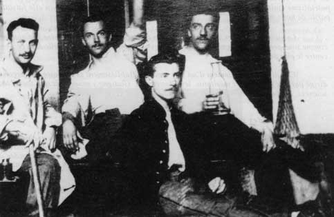 Albert Caquot, wearing a dark uniform jacket in the foreground, amid other fellows in École Polytechnique premises then in Paris, is in second position starting from the right.